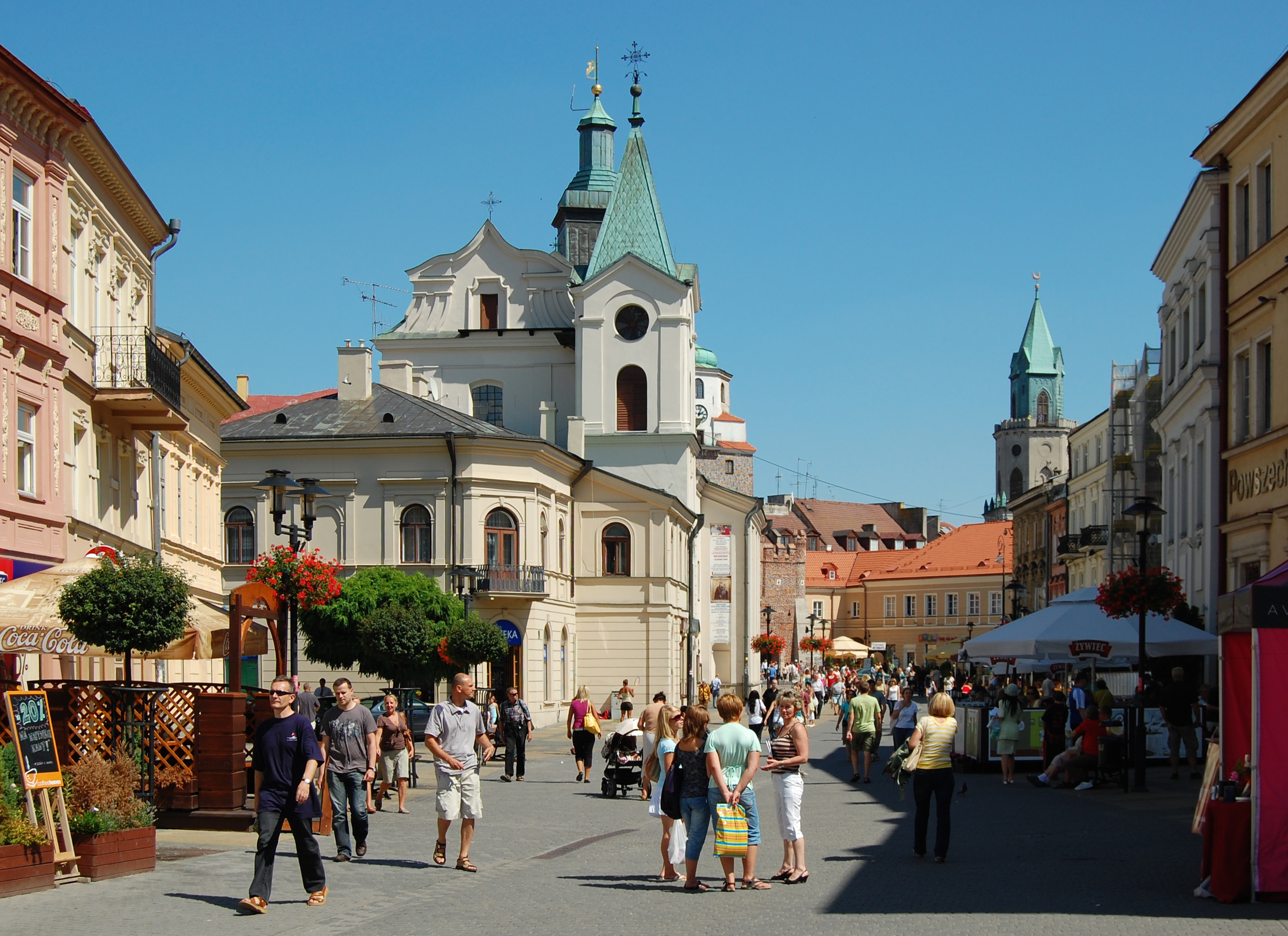 Krakowskie Przedmieście Street in Lublin, Poland.